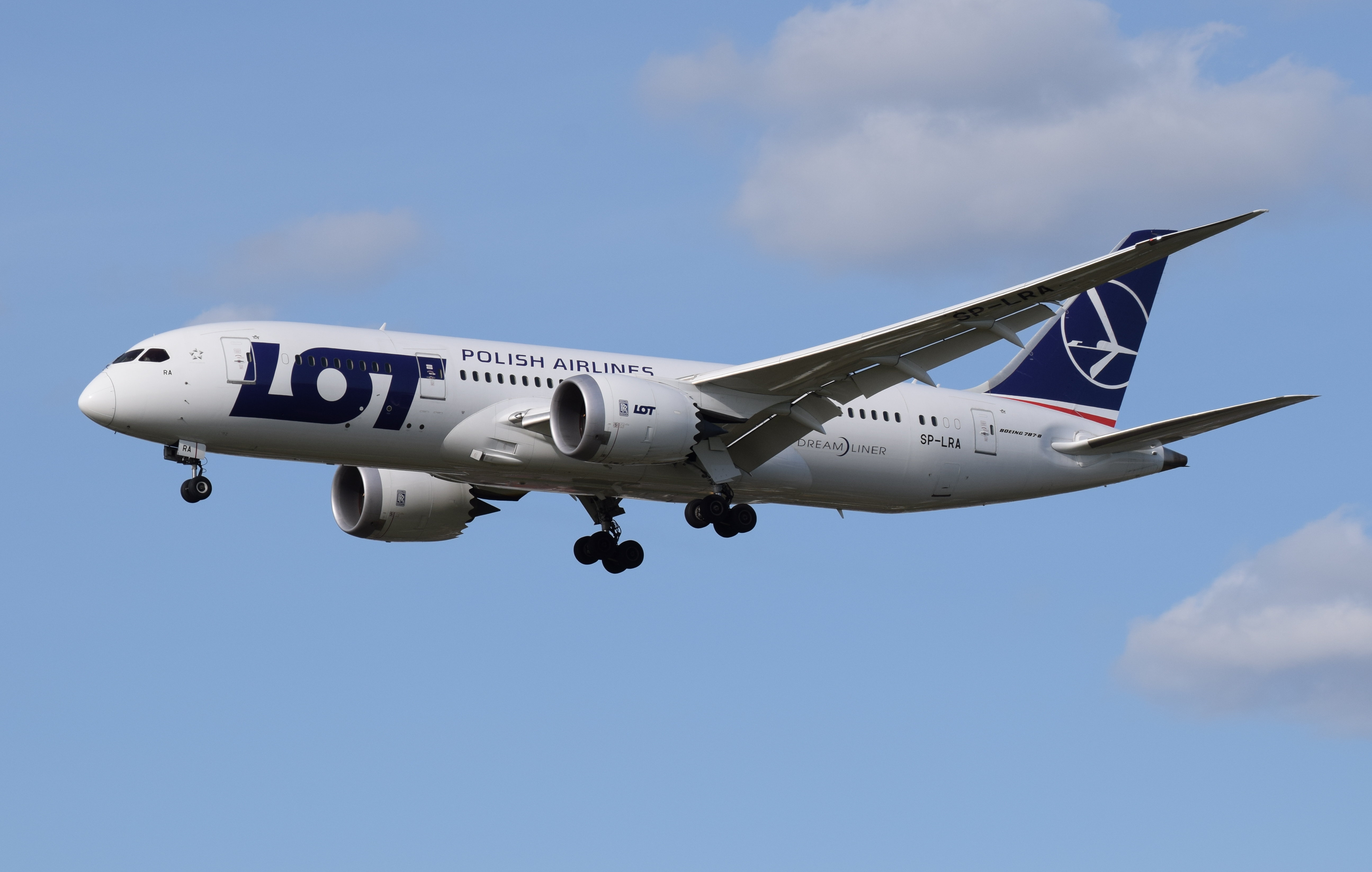 LOT Polish Airlines Boeing 787-8 (SP-LRA) arrives London Heathrow Airport, England.